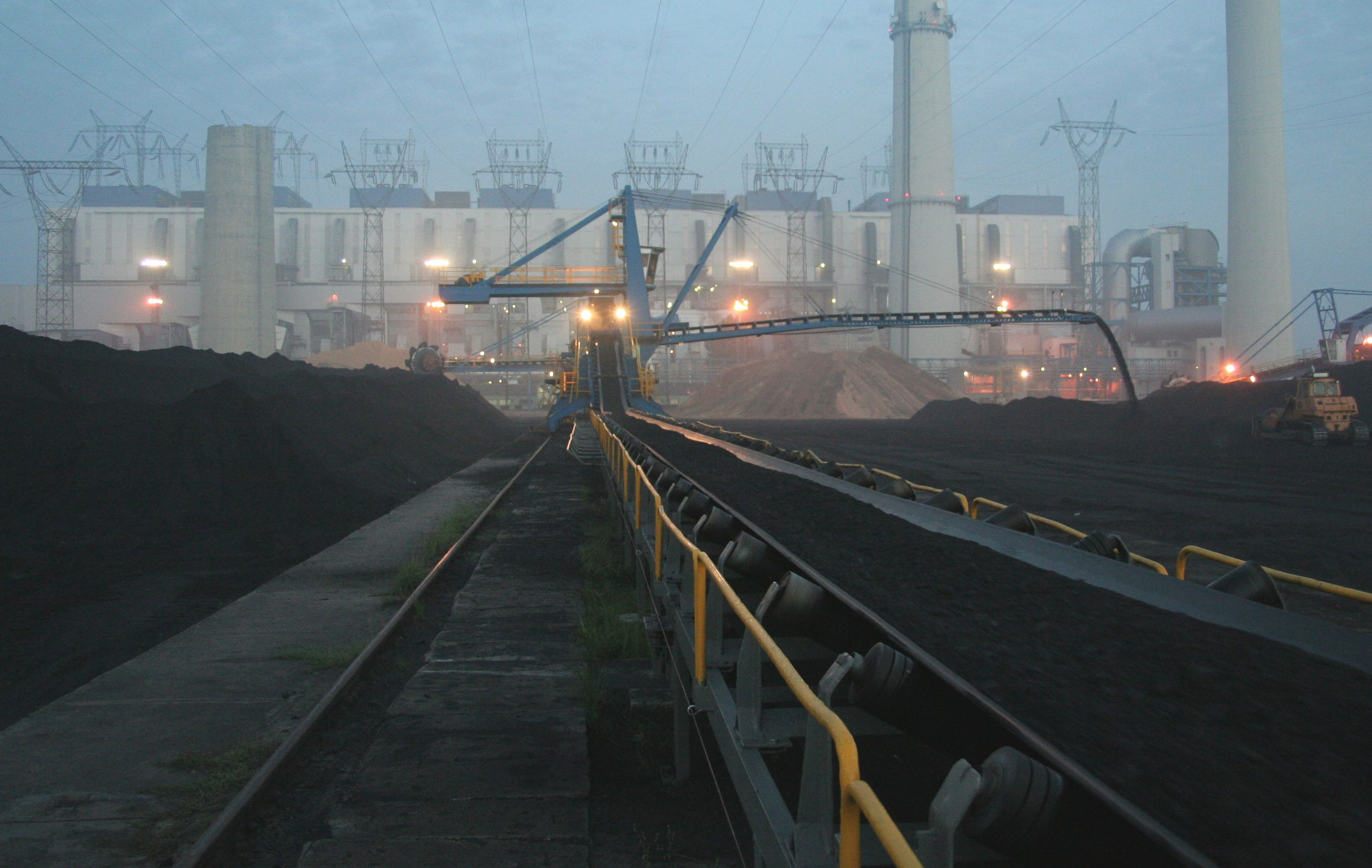 Dolna Odra Power Plant, Poland